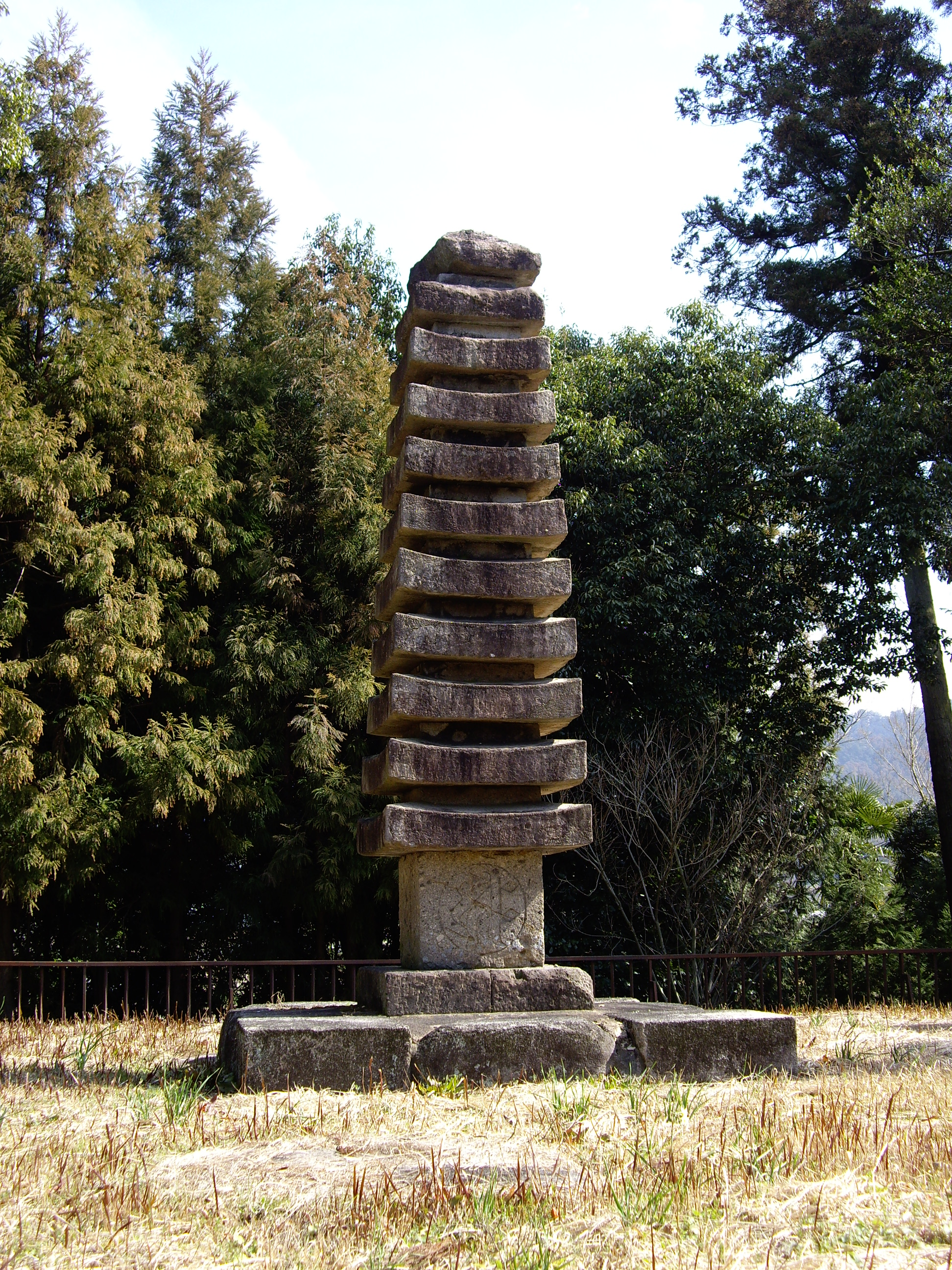 The ruins of Hinokuma-dera Temple, in Asuka, Nara Prefecture, Japan